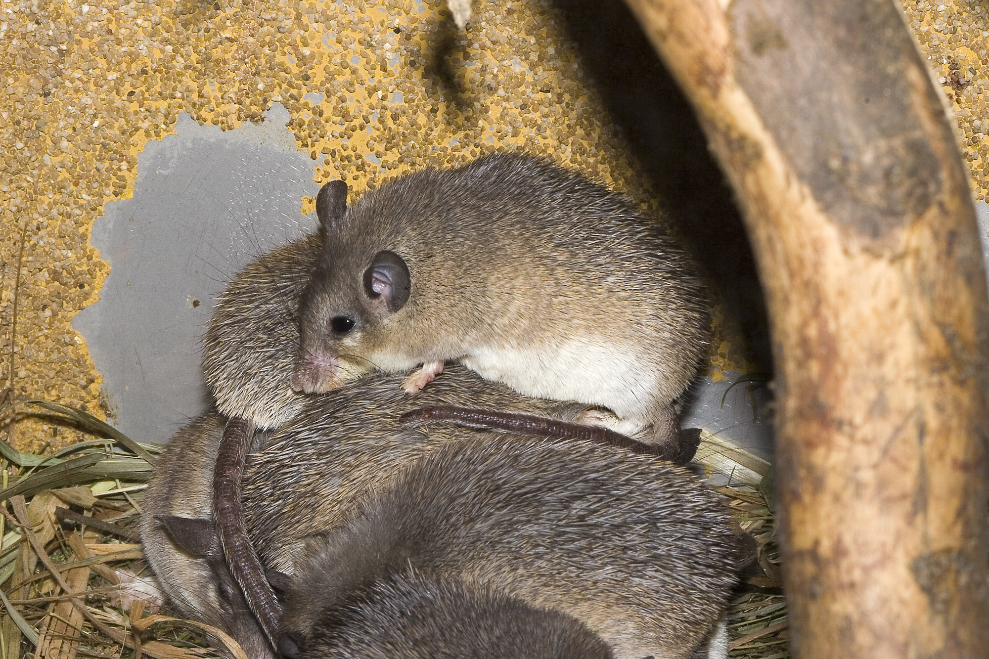 Asia Minor Spiny Mouse, Acomys cilicicus